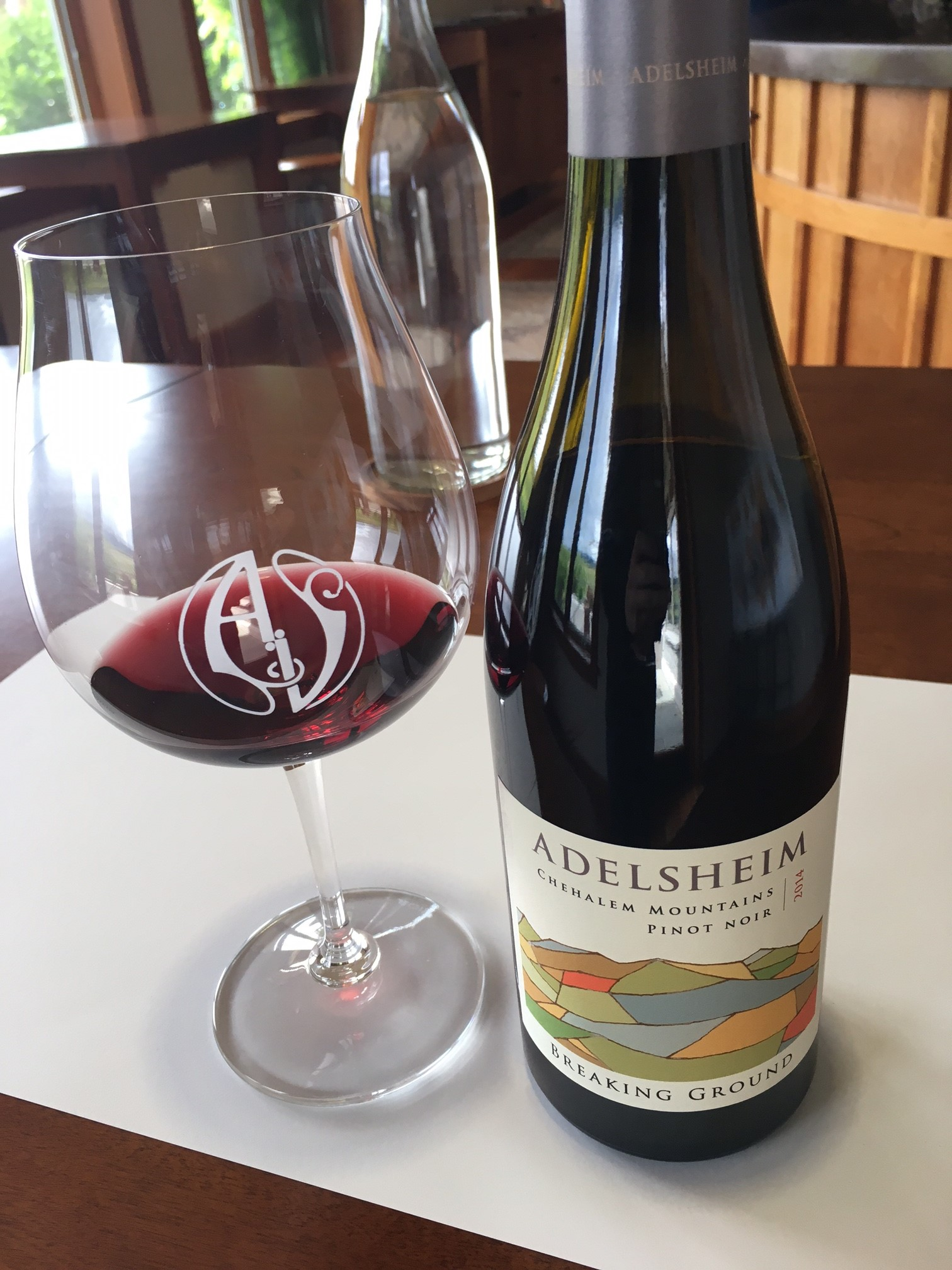 2014 Breaking Ground Pinot Noir, Chehalem Mountains AVA, Adelsheim Vineyard